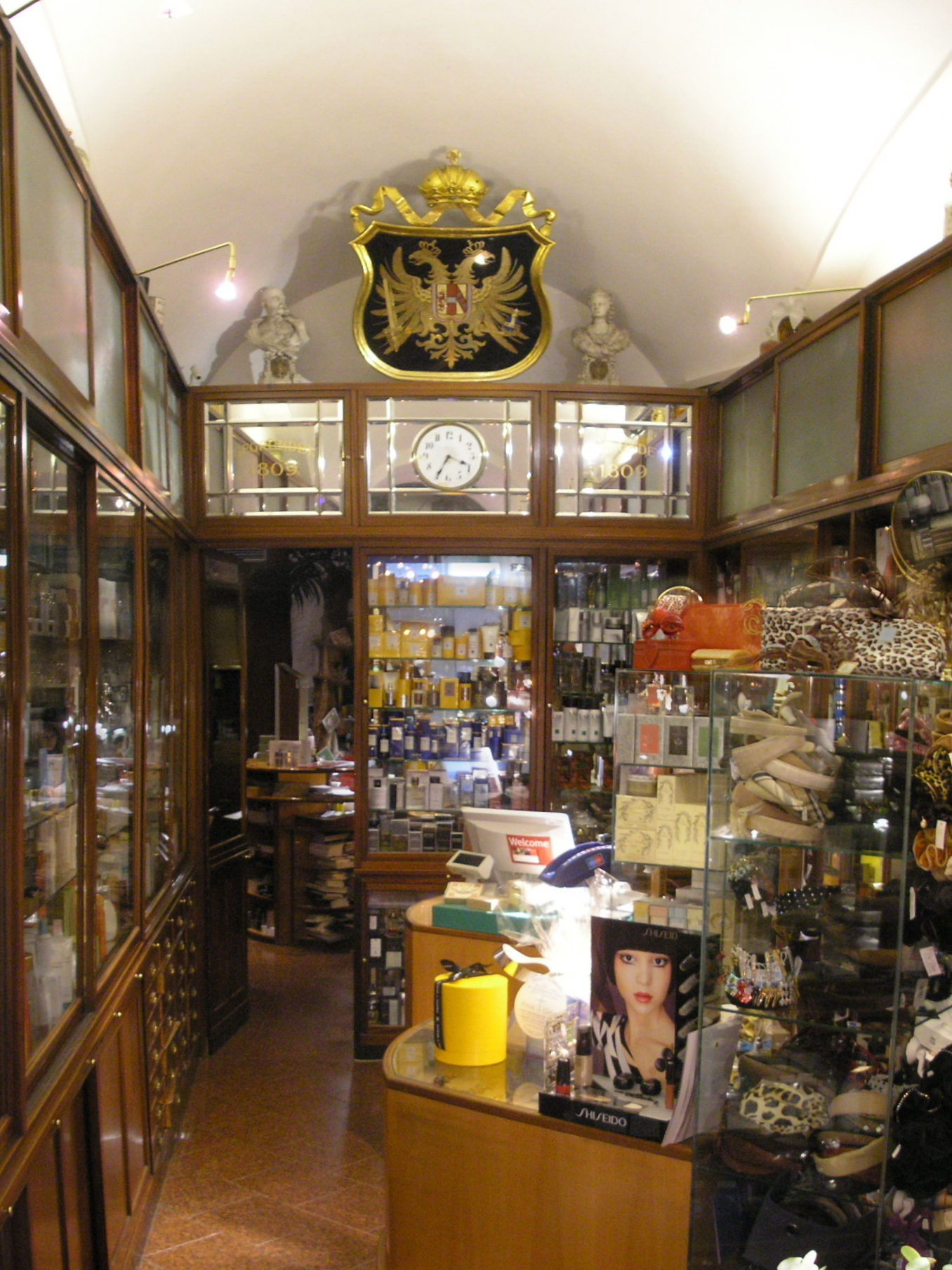 Interior of J.B. Filz Sohn perfume shop at Graben 13 in Vienna.